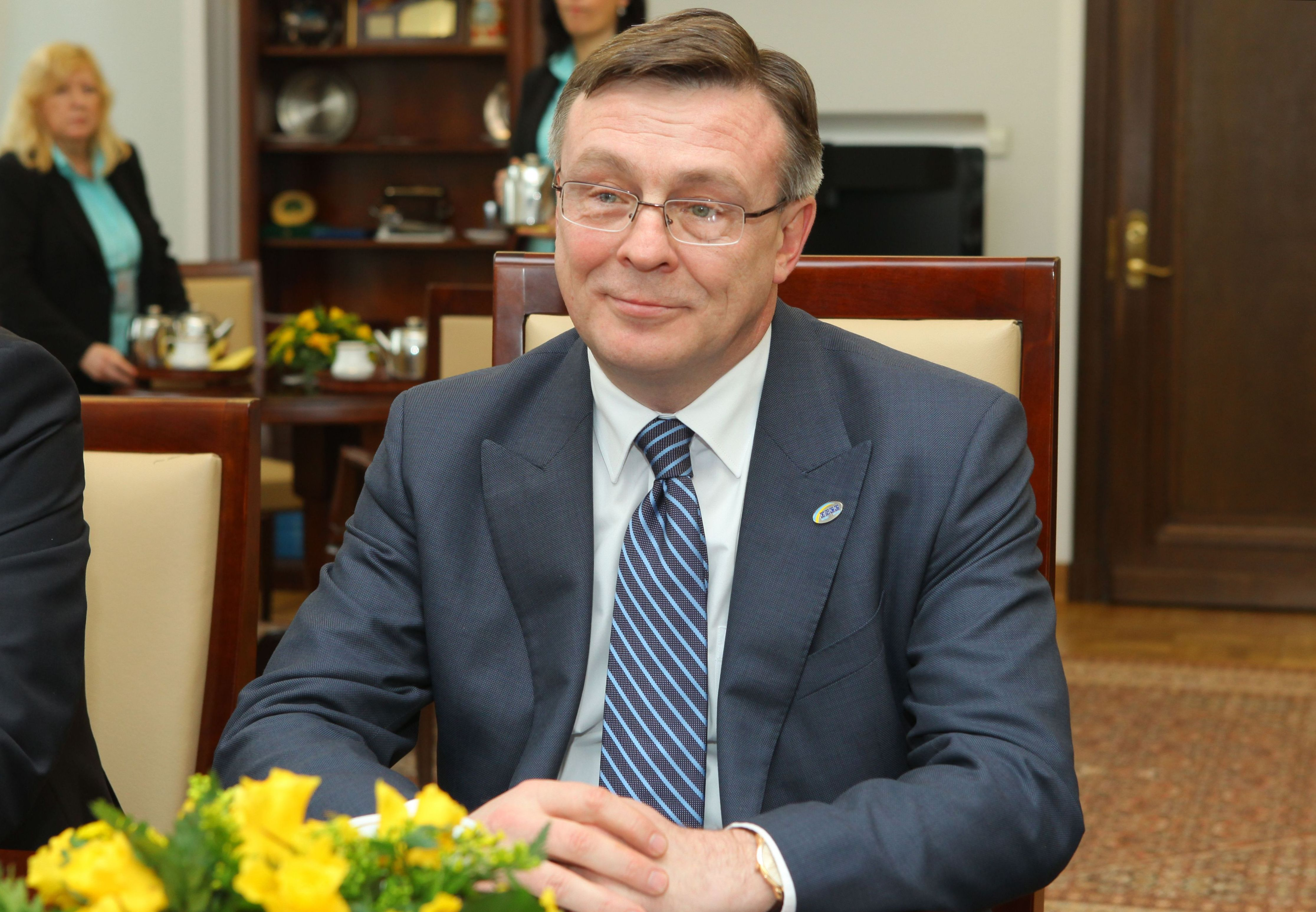 Minister of Foreign Affairs of Ukraine Leonid Kozhara in the Polish Senate